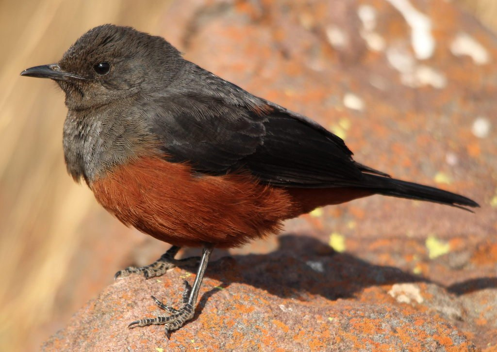 Mocking Cliff Chat Thamnolaea cinnamomeiventris, Marakele National Park, Limpopo Prov., South Africa